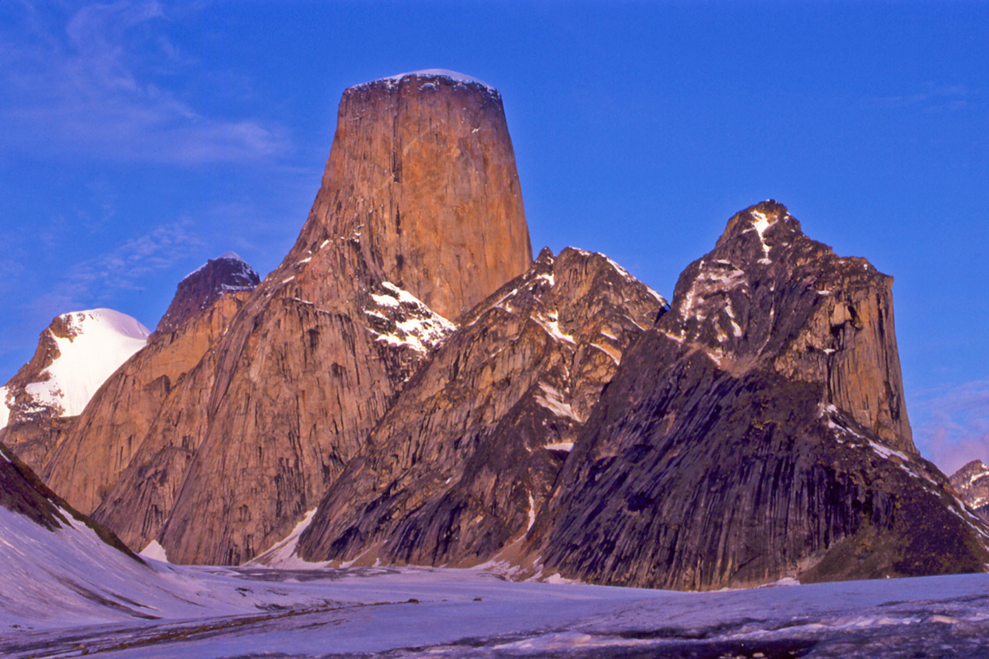 Mt. Asgard, Auyuittuq Park, Baffin Is., from the Turner Glacier at the point of entry of the Parade Glacier. We had looped around Freya Peak and Iviangernat Mountain via the Parade Glacier from (and to) Summit Lake, all glacier travel except by the Lake. Both this shot and my Mt. Loki shot were taken from the same location. Mt. Asgard was used in a Union-Jack-patterned-parachuting ski off the top - supposedly in the Alps - in the 1977 James Bond movie 'The Spy Who Loved Me'. Note that the double summit is not apparent from this location.